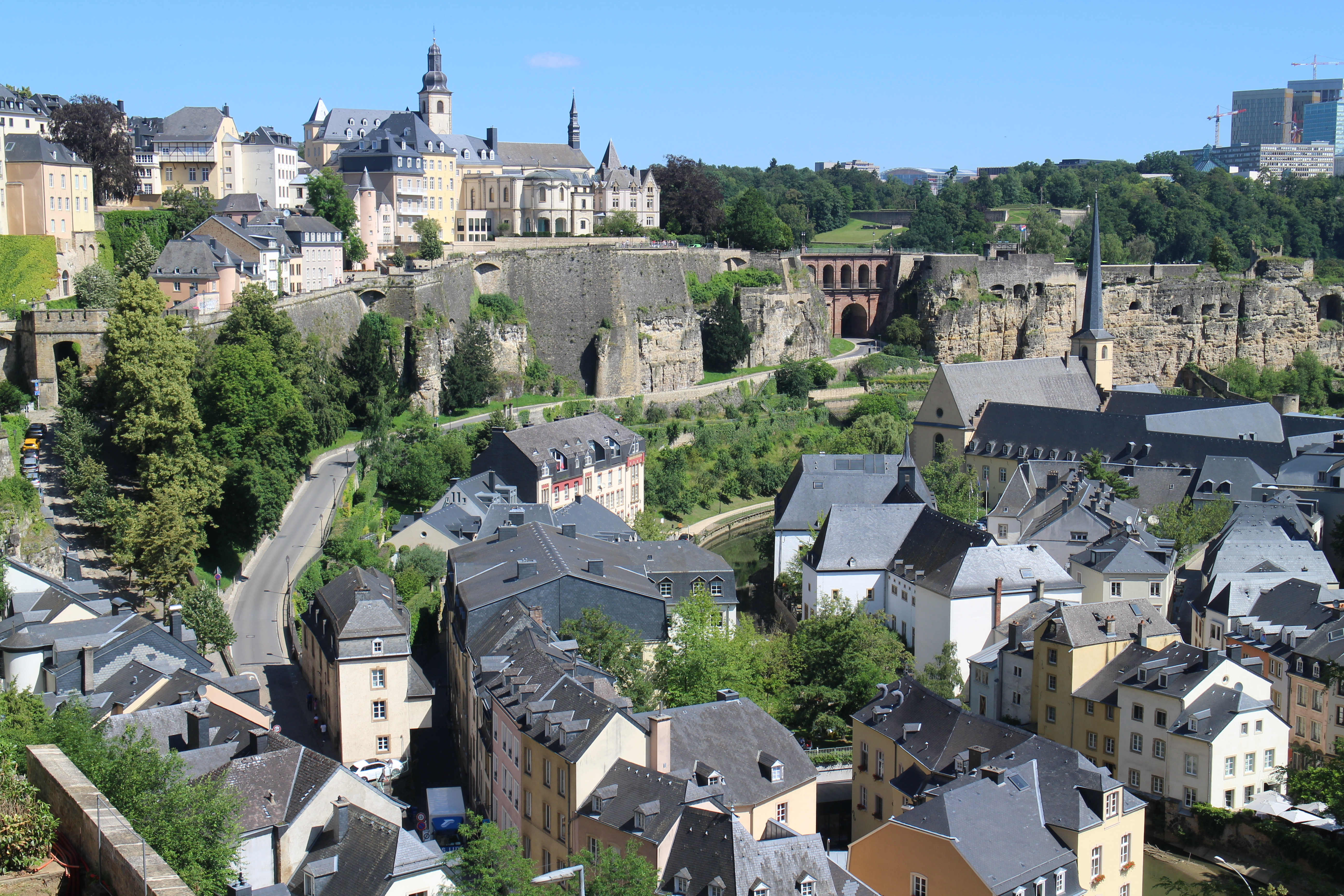 Rocher du Boc / Bockfiels